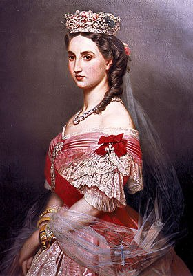 Charlotte of Belgium Empress of Mexico